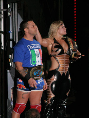 Cropped version of Andrea90's image, File:Santino & Beth.jpg, showing :Santino Marella and Beth Phoenix as the WWE Intercontinental and WWE Women's Champions respectively in Milan, Italy, on November 6, 2008.